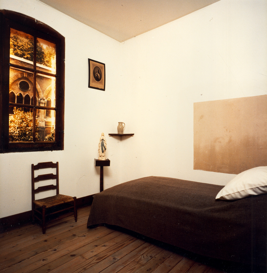 Convent Cell of Elisabeth of the Trinity